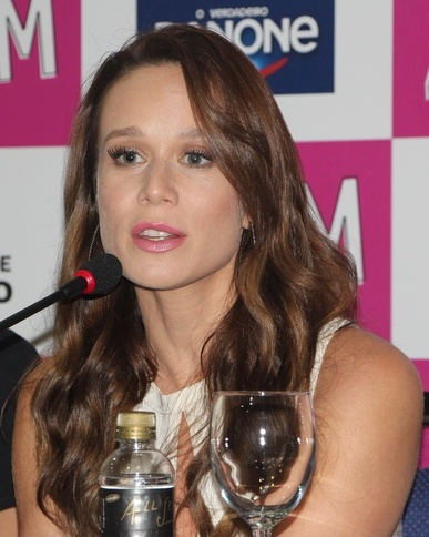 Mariana Ximenes, Brazilian actress.